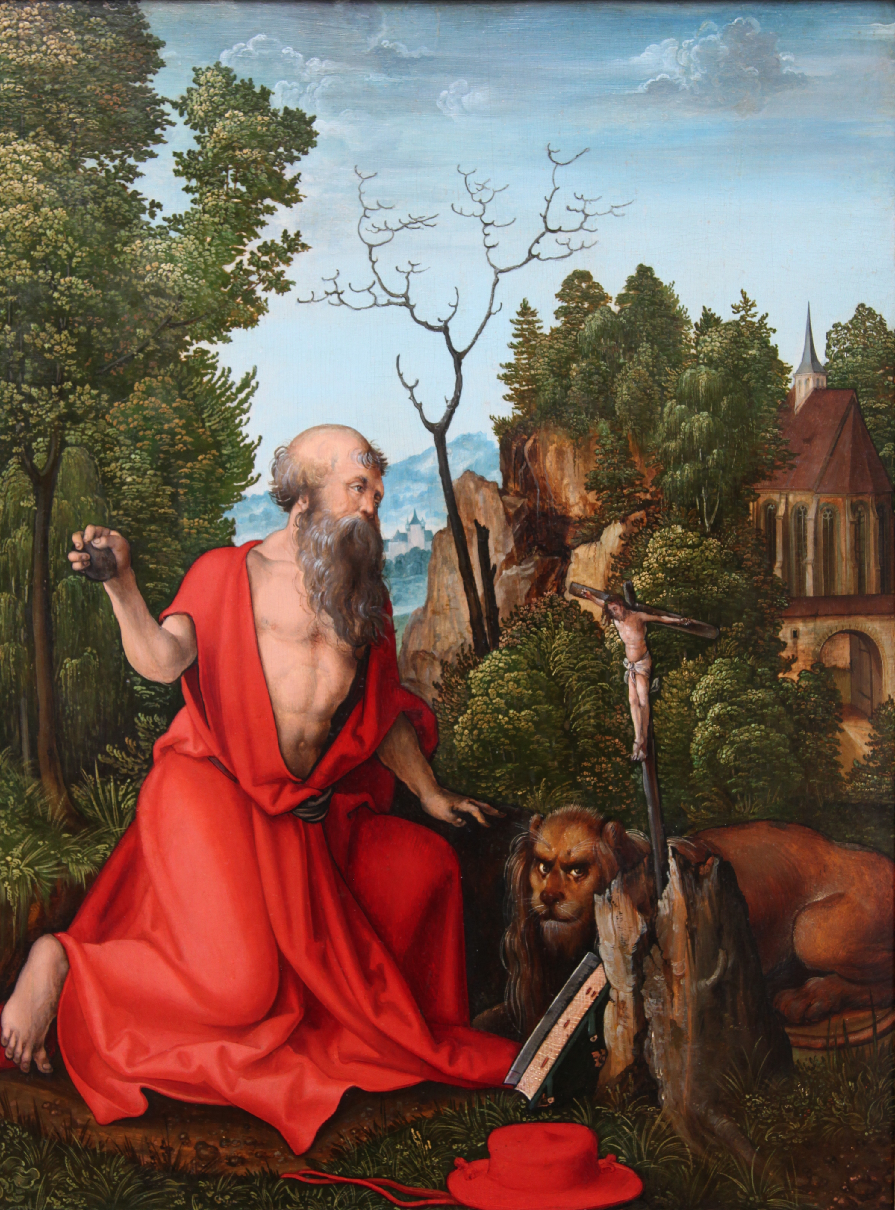 St Jerome in the wilderness